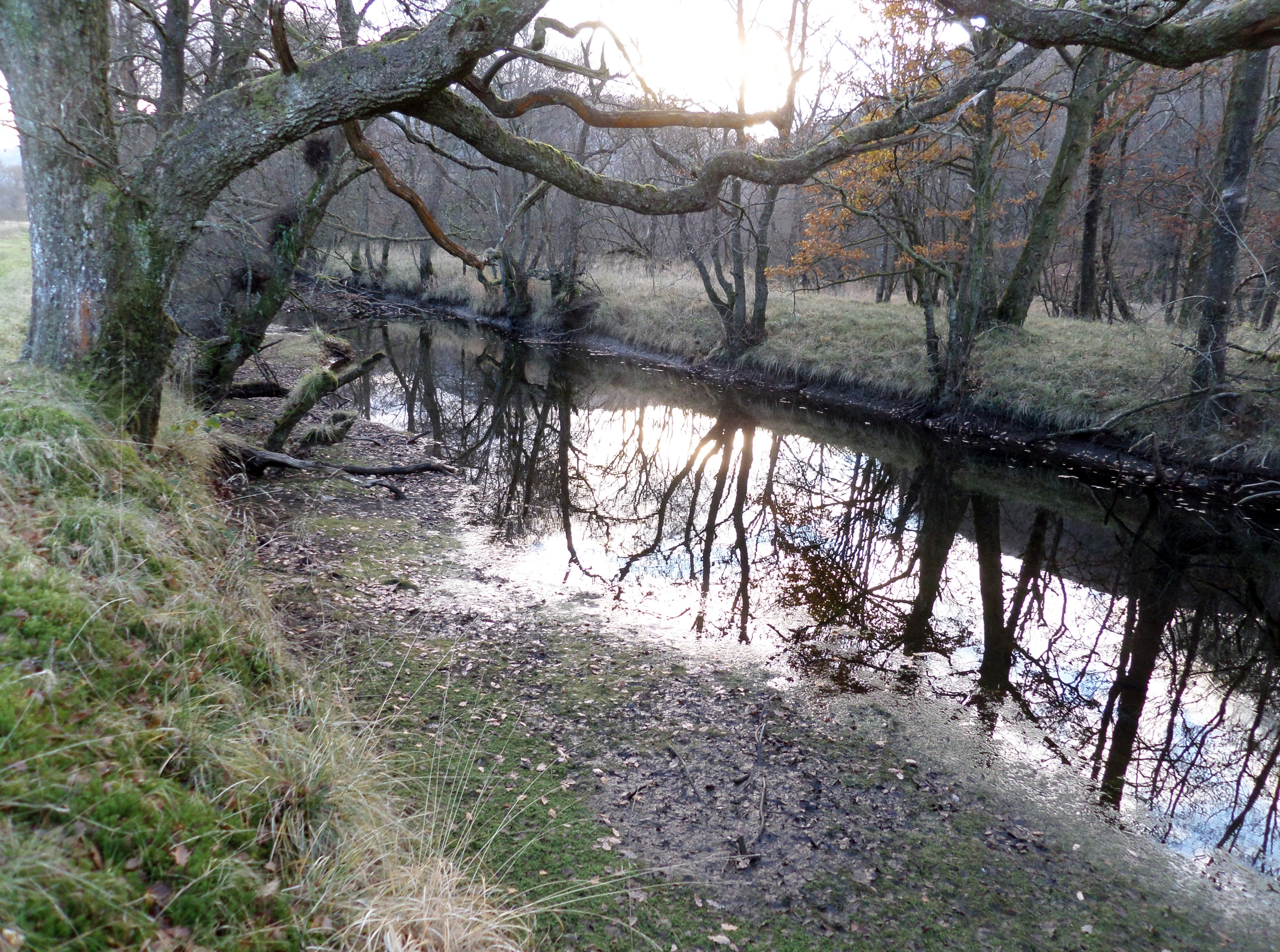 The 1844 Inverarnan Canal from the southern side , Stirling, Scotland. Closed to timetabled traffic in the 1870s.